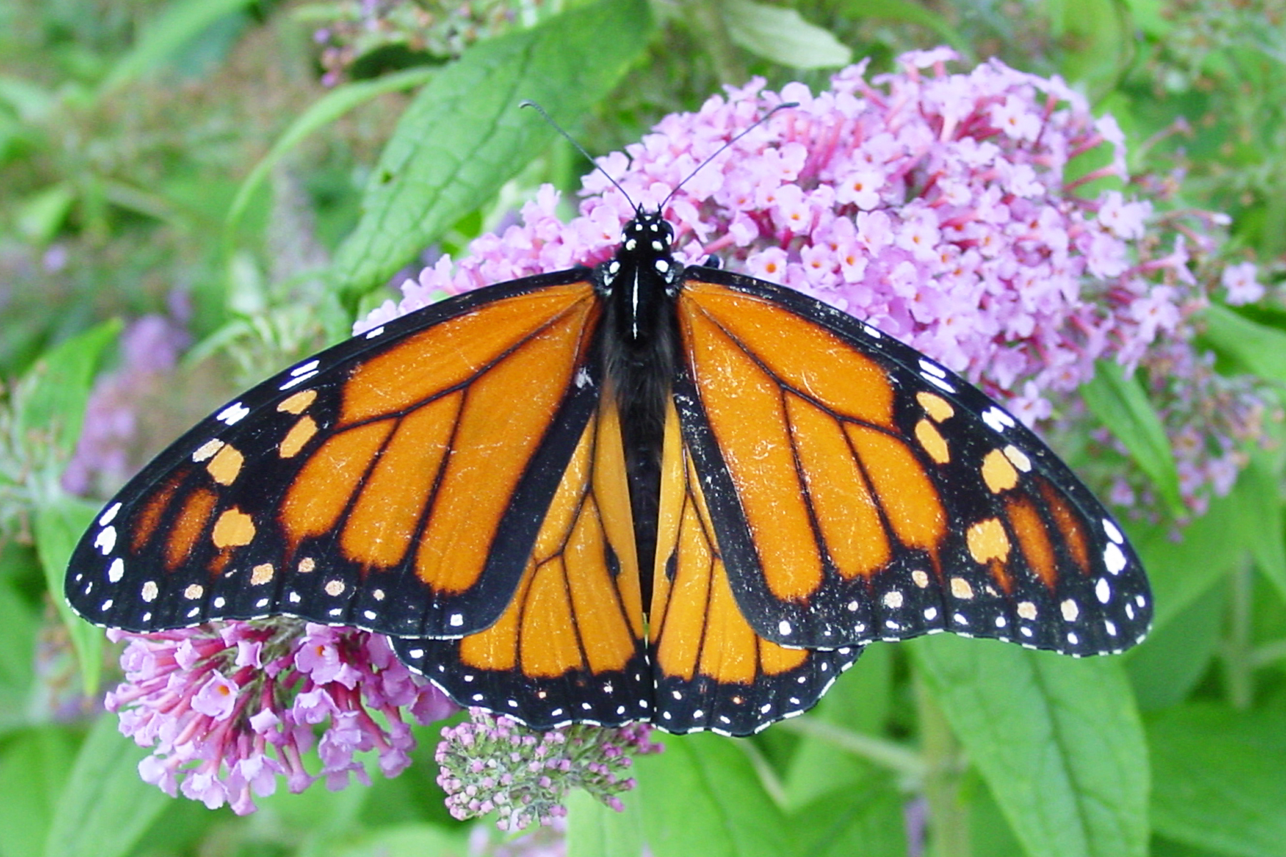 A male Danaus plexippus en commonly know as a Monarch Butterfly on an unknown species of Buddleja.